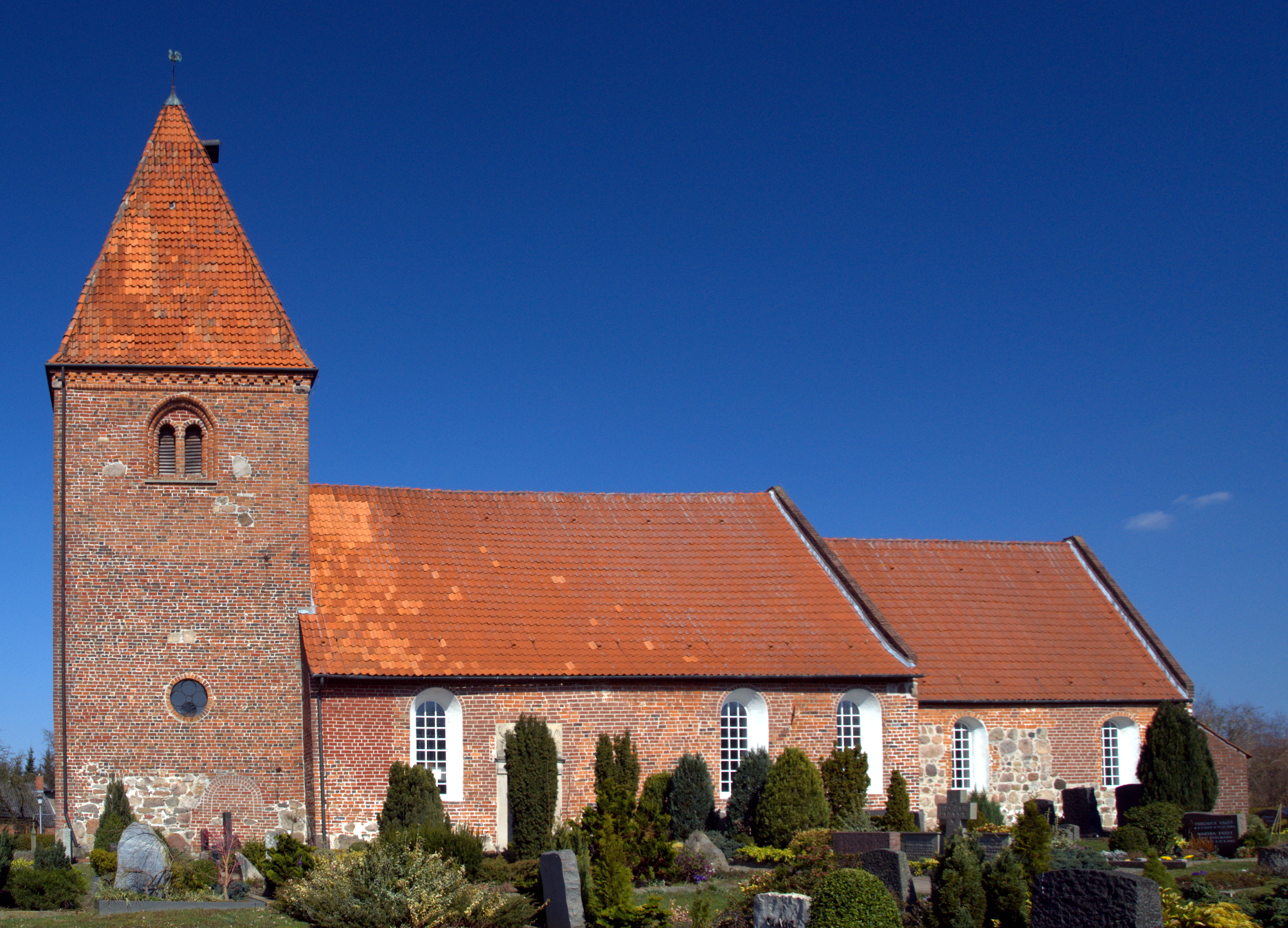 The Lutheran St Ansgar church in Kirchhatten, Oldenburg county, Germany, with the churchyard in the foreground.